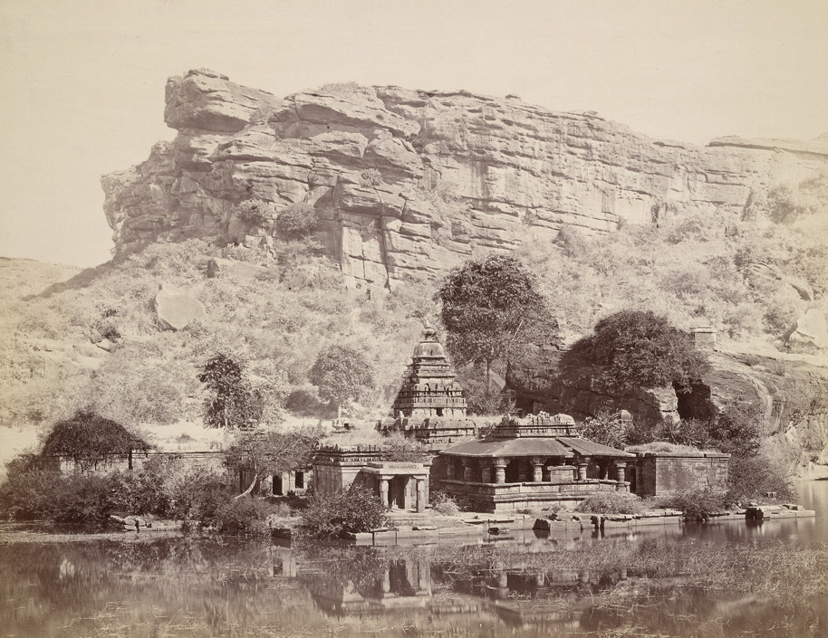 1880s photograph by Henry Cousens (d. 1933[1]) of cliffs overlooking the Bhutanatha Temple Complex on the eastern end of the artificial lake in Badami, Karnataka, India. (Oriental and India Office Collection, British Library.) The Kappe Arabhatta inscription is carved on a cliff at the north-eastern shore of the lake. Downloaded and reduced by Fowler&fowlerÂ«TalkÂ» 20:05, 21 April 2008 (UTC) from the British Library Website.